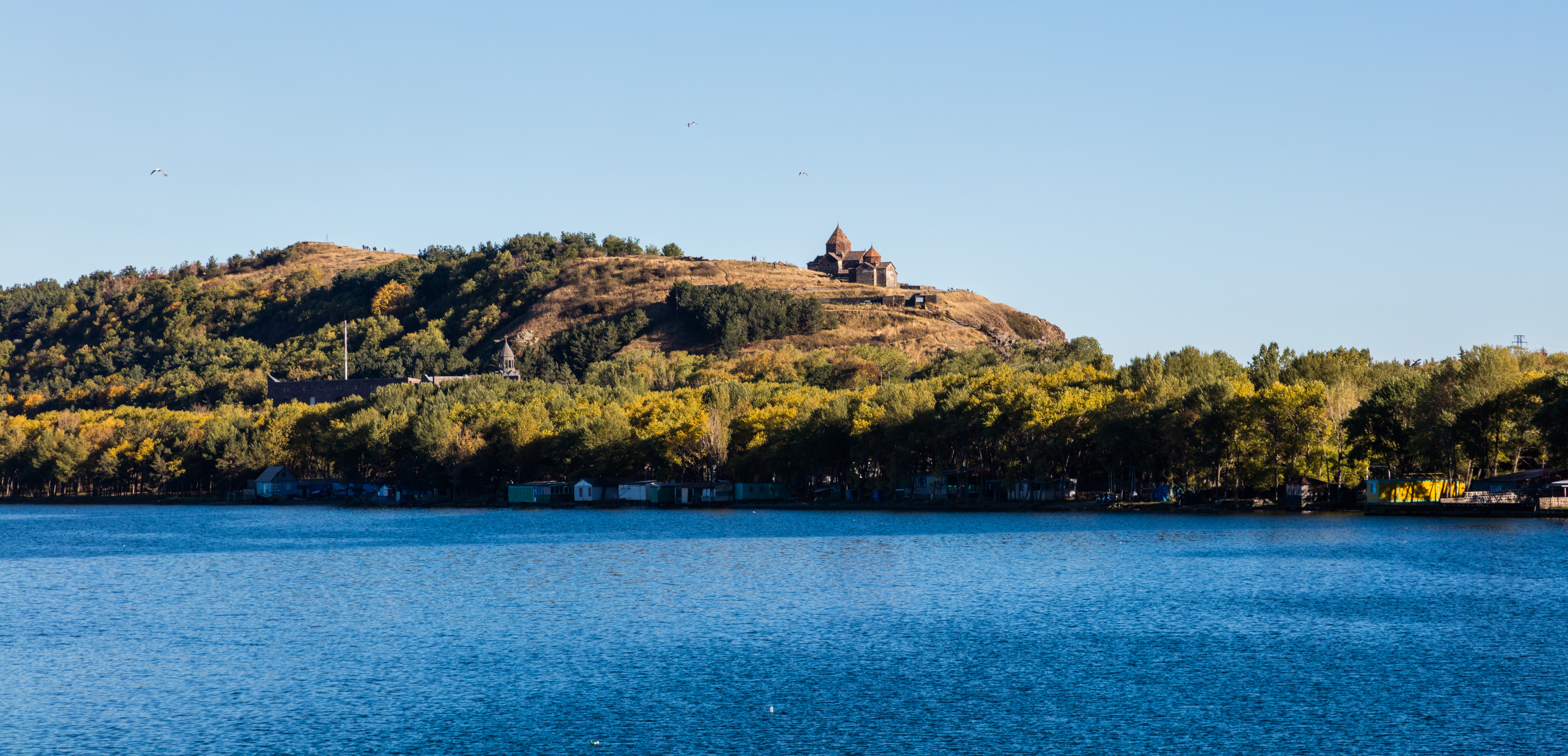 Sevanavank Monastery, Armenia